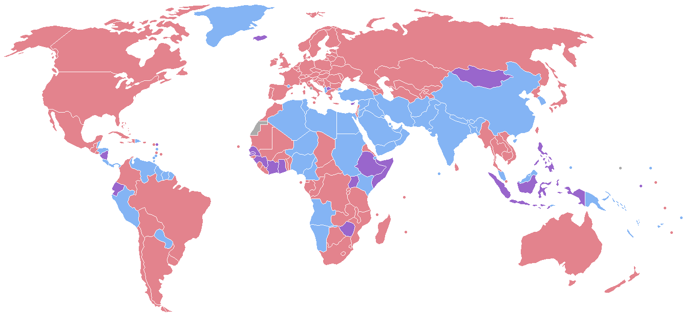 Map indicating the human sex ratio by country.